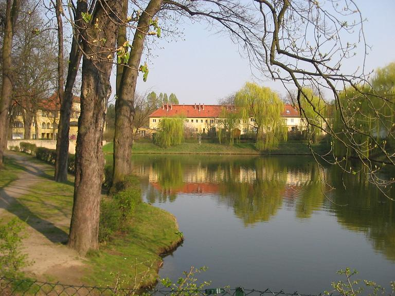 Lindenhofteich (lake) in the listed urban area Lindenhof in Berlin-Schöneberg nearby Alboinplatz (place), built between 1918 and 1921 by Heinrich Lassen and Martin Wagner . The Park is also listed and was projected by Leberecht Migge.